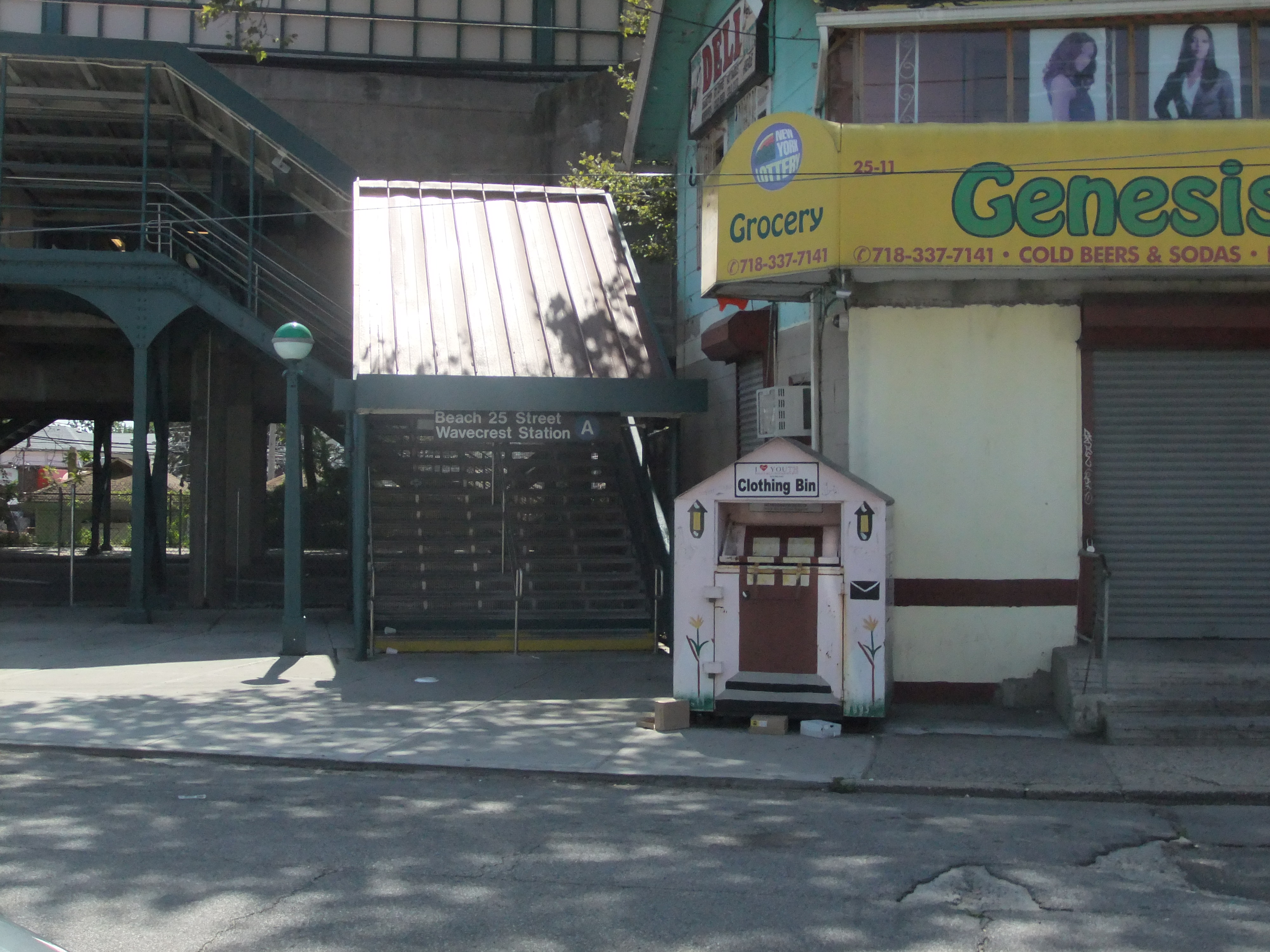 Stair at Beach 25th Street and Rockaway Freeway to the Beach 25th Street - Wavecrest station.